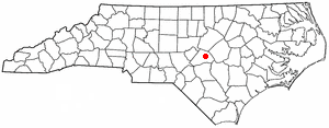 Category:North Carolina Dot Maps